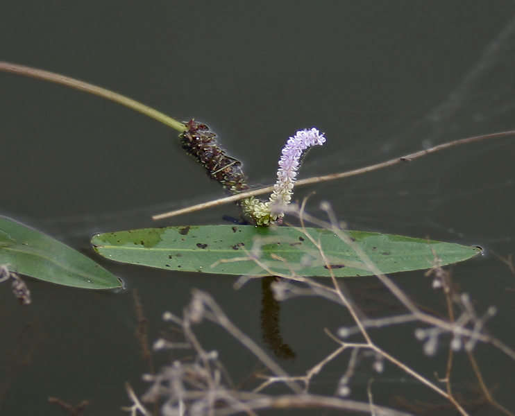 Aponogeton natans syn. Aponogeton monostachyon in Narsapur, Andhra Pradesh, India.